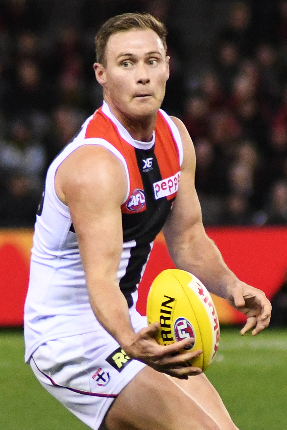 David Armitage of St Kilda during the 2018 AFL round 21 match between Essendon and St Kilda at Etihad Stadium on Friday, 10 August 2018 in Melbourne, Victoria.